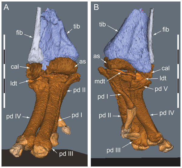 Figure 20: Diluvicursor pickeringi gen. et sp. nov. holotype (NMV P221080), CT restoration of the right distal crus, tarsus and pes. A–B: (A) anterior/dorsal; and (B) plantar views. Abbreviations: as, astragalus; cal, calcaneum; fib, fibula; ldt, lateral distal tarsal; mdt, medial distal tarsal; pd, pedal digit number; tib, tibia. Scale bars equal 50 mm.